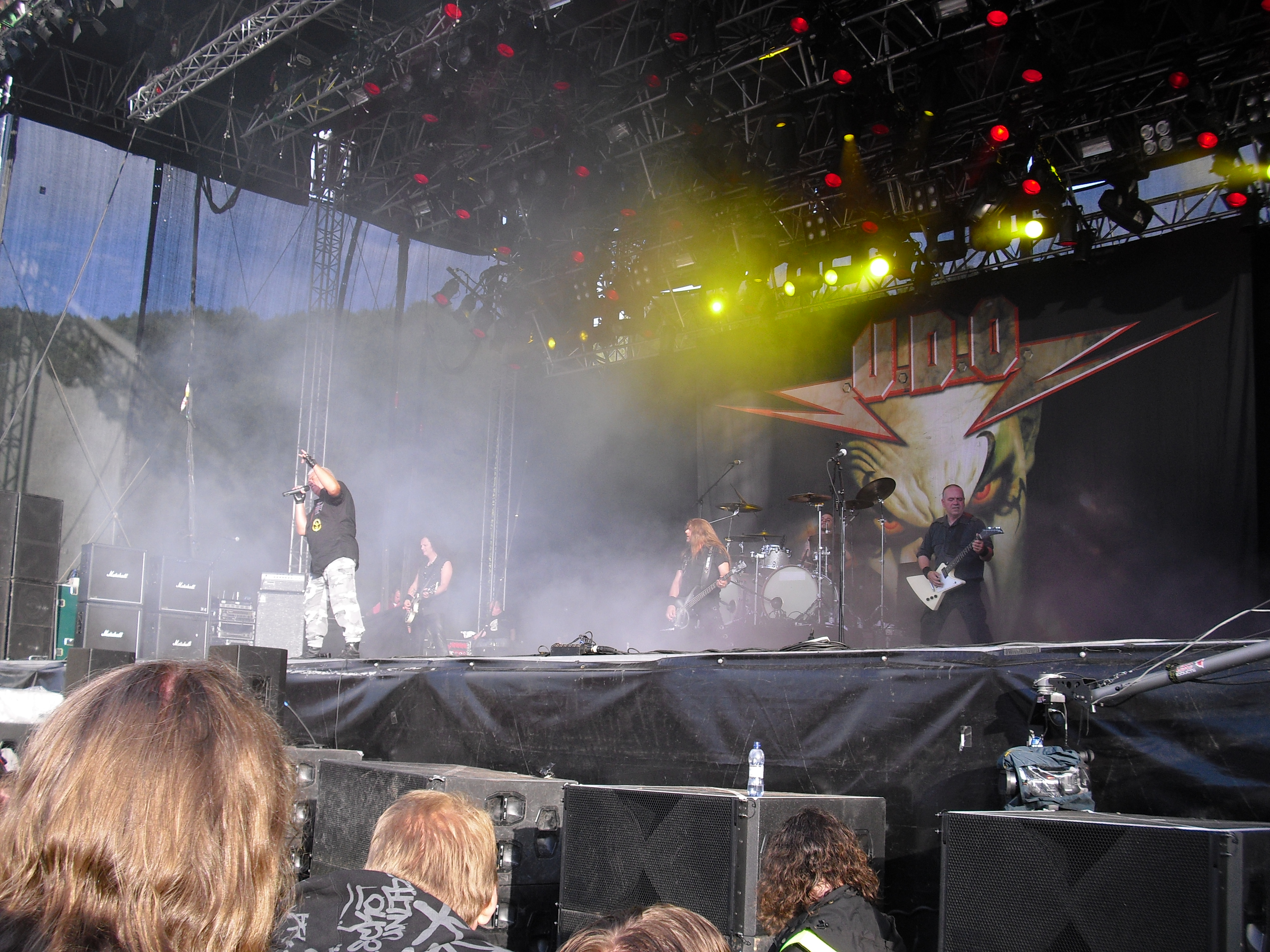 U.D.O. performing live at Norway Rock Festival in 2009